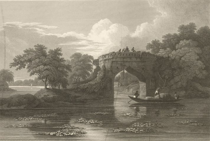 This etching is taken from plate 20 of Charles D'Oyly's 'Antiquities of Dacca'. The Tantee (or Weaver's) Bridge was situated in the weavers' quarter, and crossed a nullah, or watercourse. James Atkinson wrote: "The navigation of the nulla is now so much impeded by the numerous aquatic weeds of this luxuriant climate, that even the smaller craft pass along it with difficulty." This area of Dhaka was also known for its boat-building and carpentry industries.